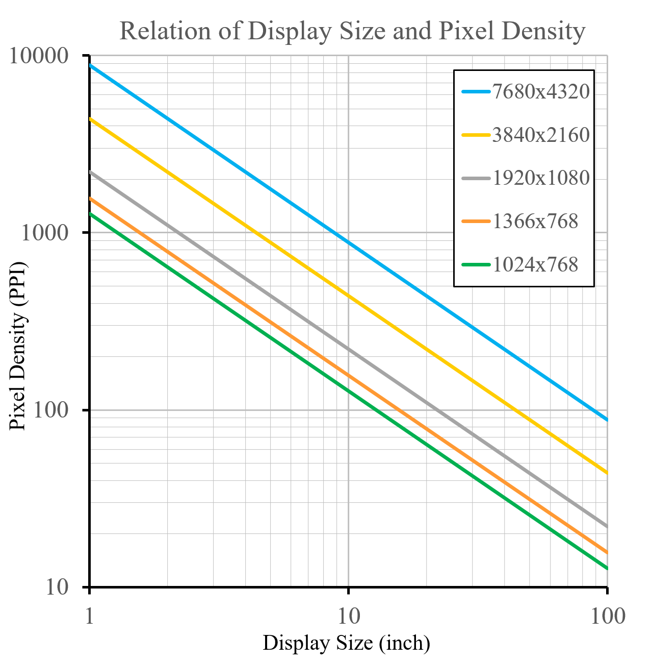 relation of display size and pixel density